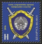 Day of the employee of the preliminary investigation.